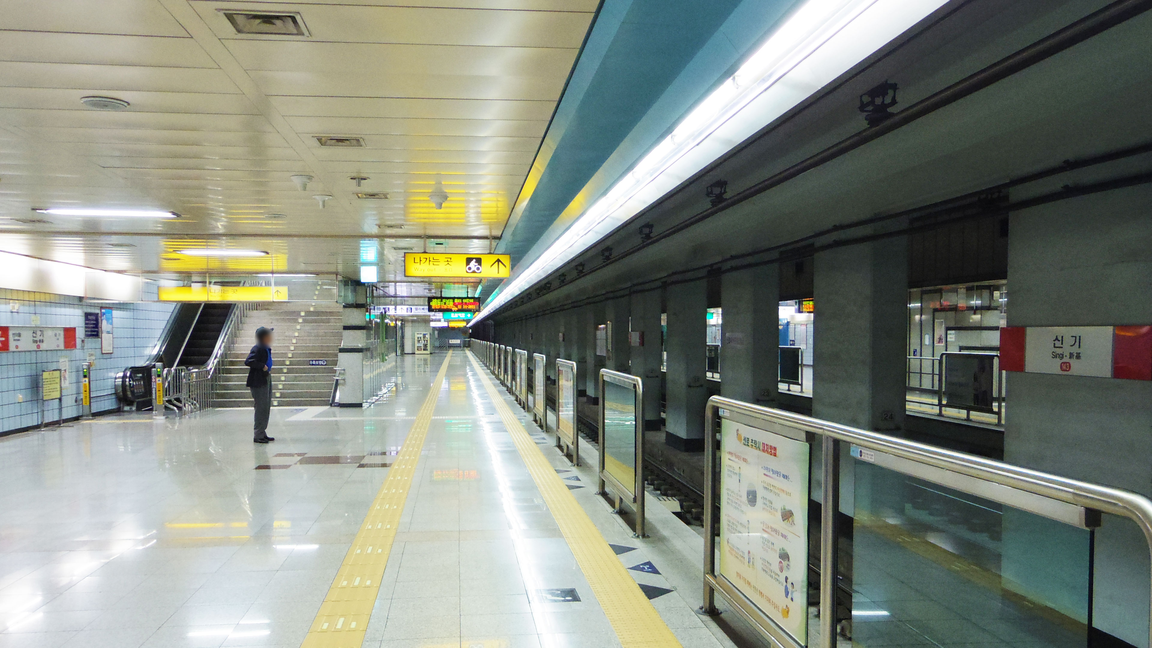 The platform of Singi Station on the Daegu Metro Line 1, for Banyawol, Ansim